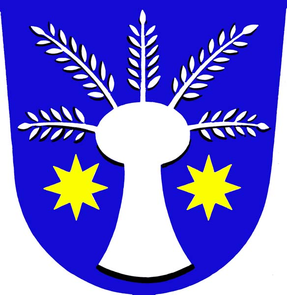 Municipal coat of arms of Malá Vrbka village, Hodonín District, Czech Republic.